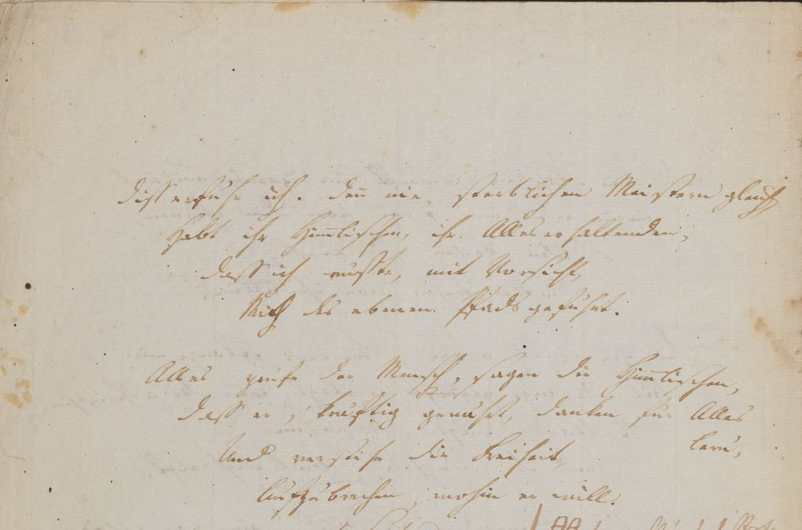 Manuscript of Hölderlin's poem Lebenslauf, page 2